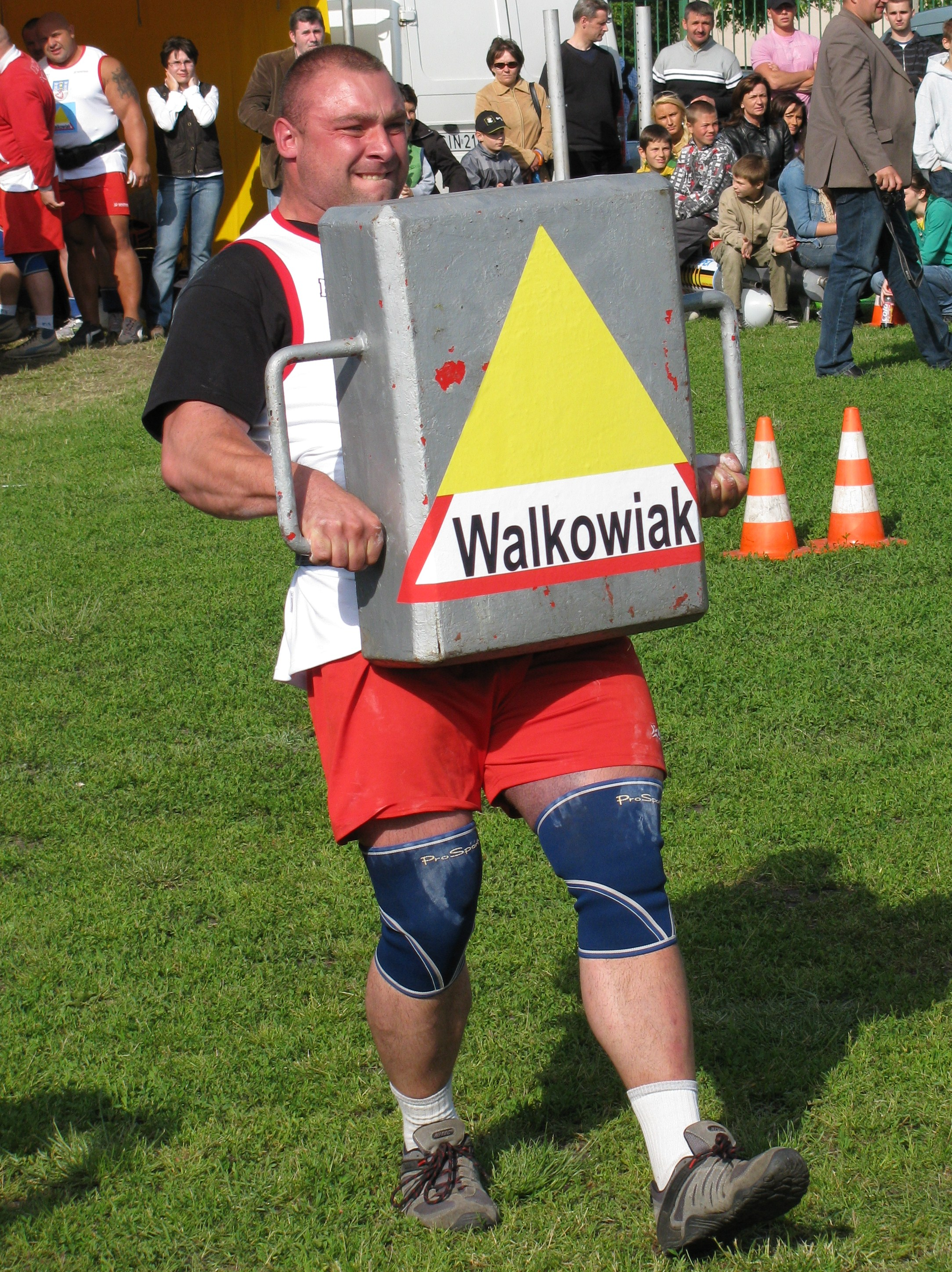 Strongman exercise